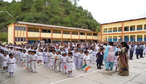 Children Praying at Kendriya Vidyalaya Tenga Valley